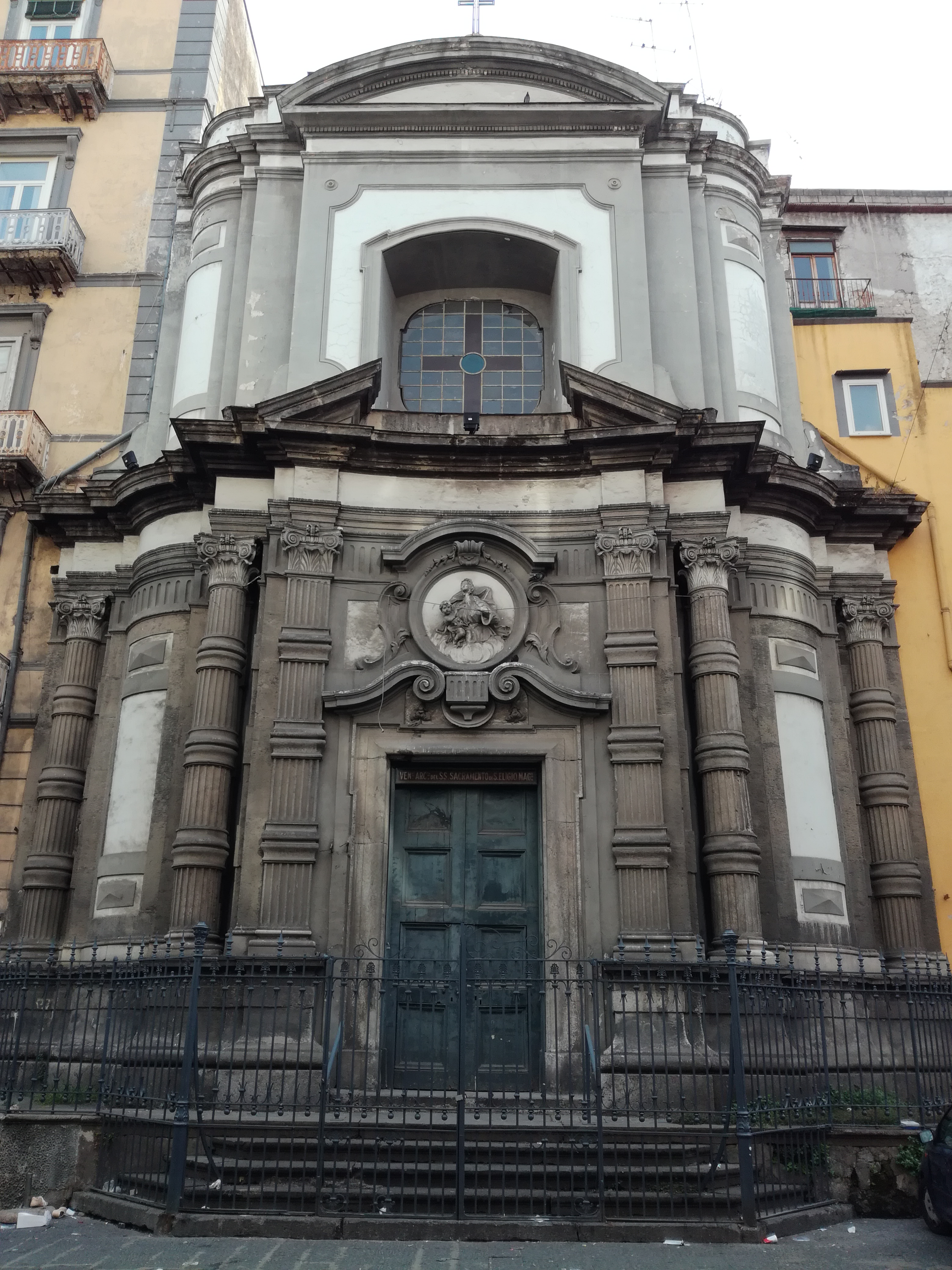 Church dei Vergini (Naples)